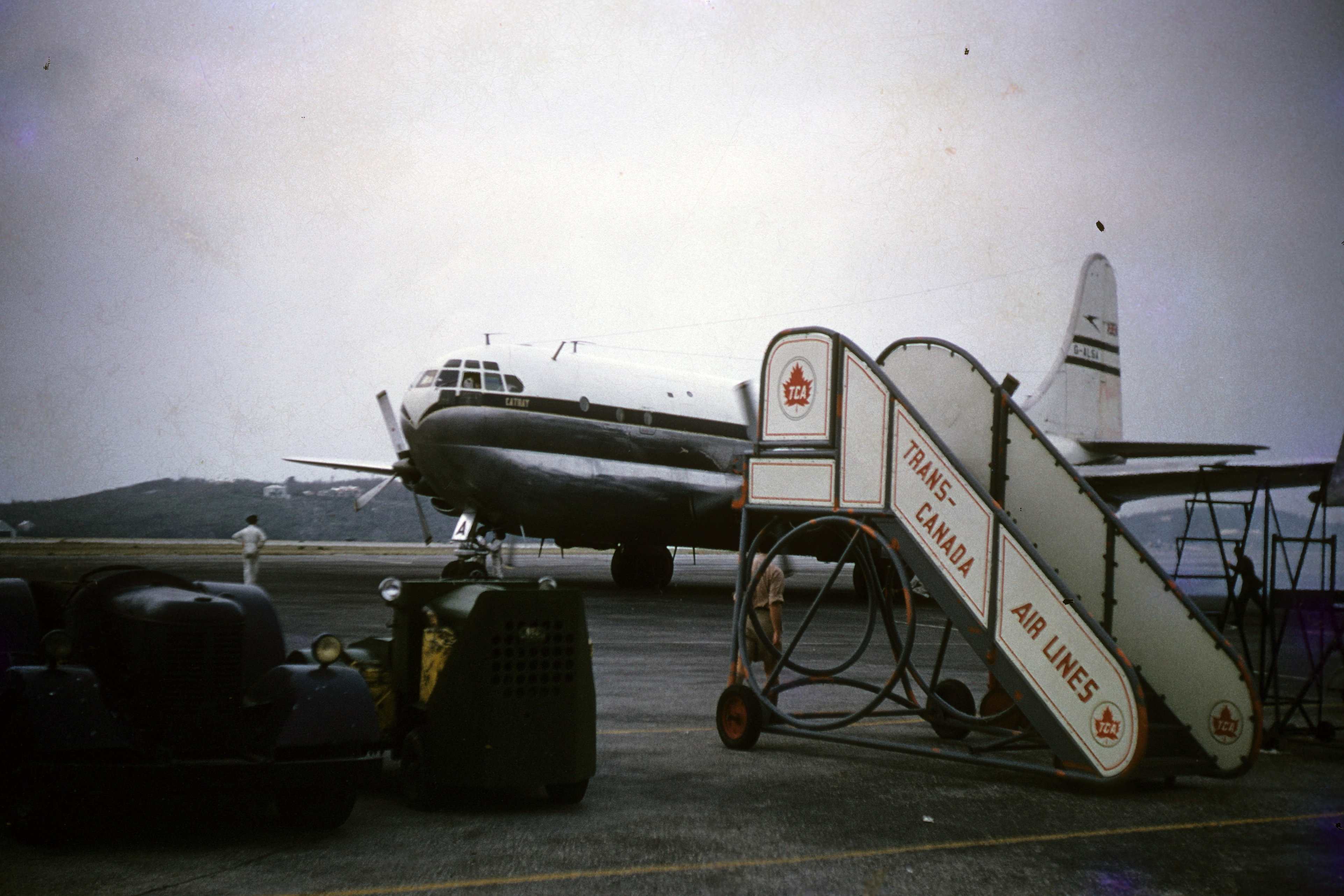 My father took this photo in Bermuda while he was station there at Kindley Air Force Base. We were there from 1952-54. This photo was taken at Kindley Air Force Base. This shows the Boeing 377 Stratocruiser Cathay. Queen Elizabeth visited Bermuda on November 24-25 in 1953 and Winston Churchill visited for the Bermuda Conference only a week or two later both using this type of aircraft. I think this is probably a photo taken during Churchill's visit from Dec. 4-8 1953 and is probably the aircraft that brought him there for that conference. It is probably not associated with the visit by the Queen as I understand her aircraft was called the Canopus.